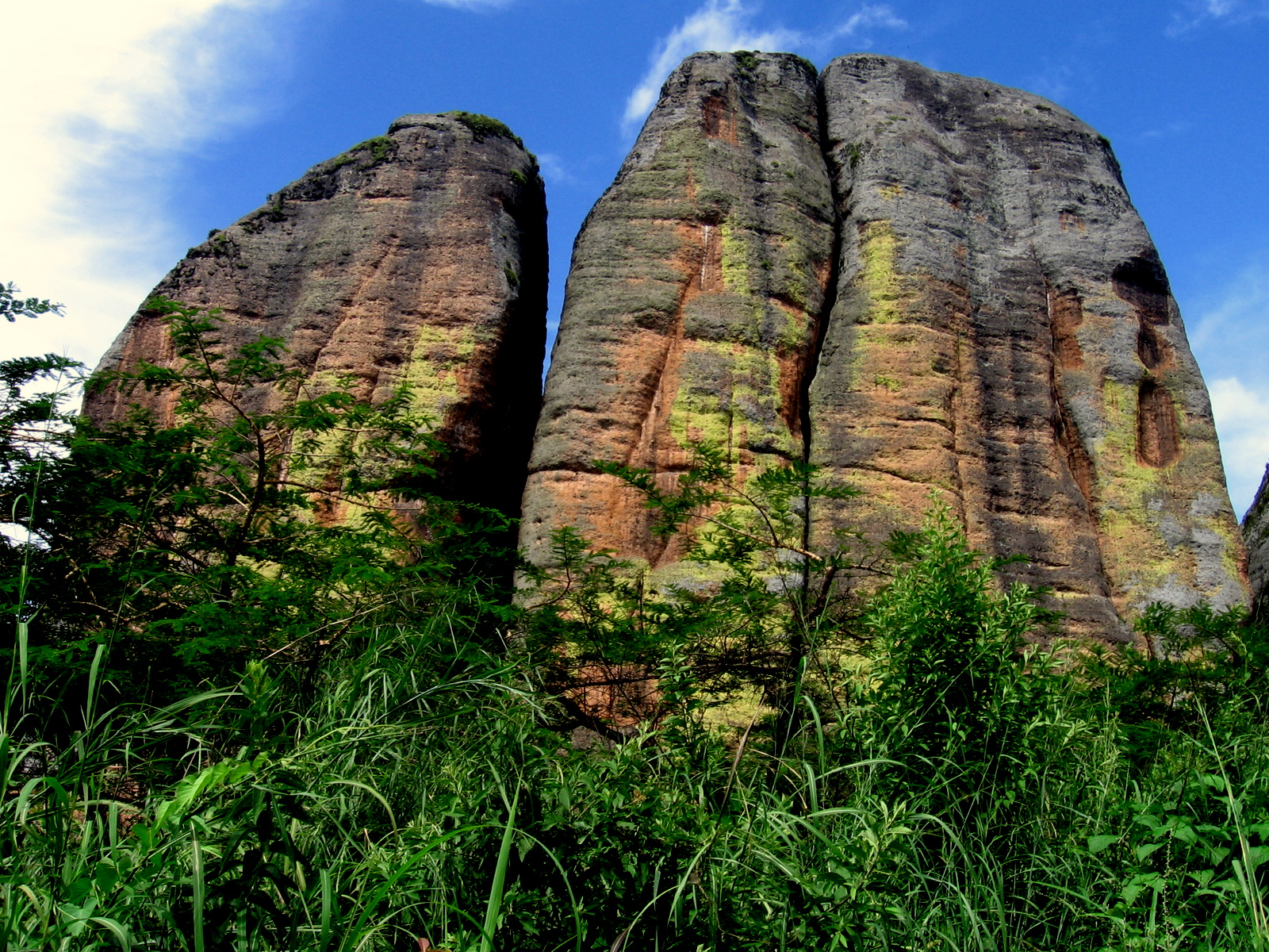 Black Stones of Pungo Adongo near Malage, Angola